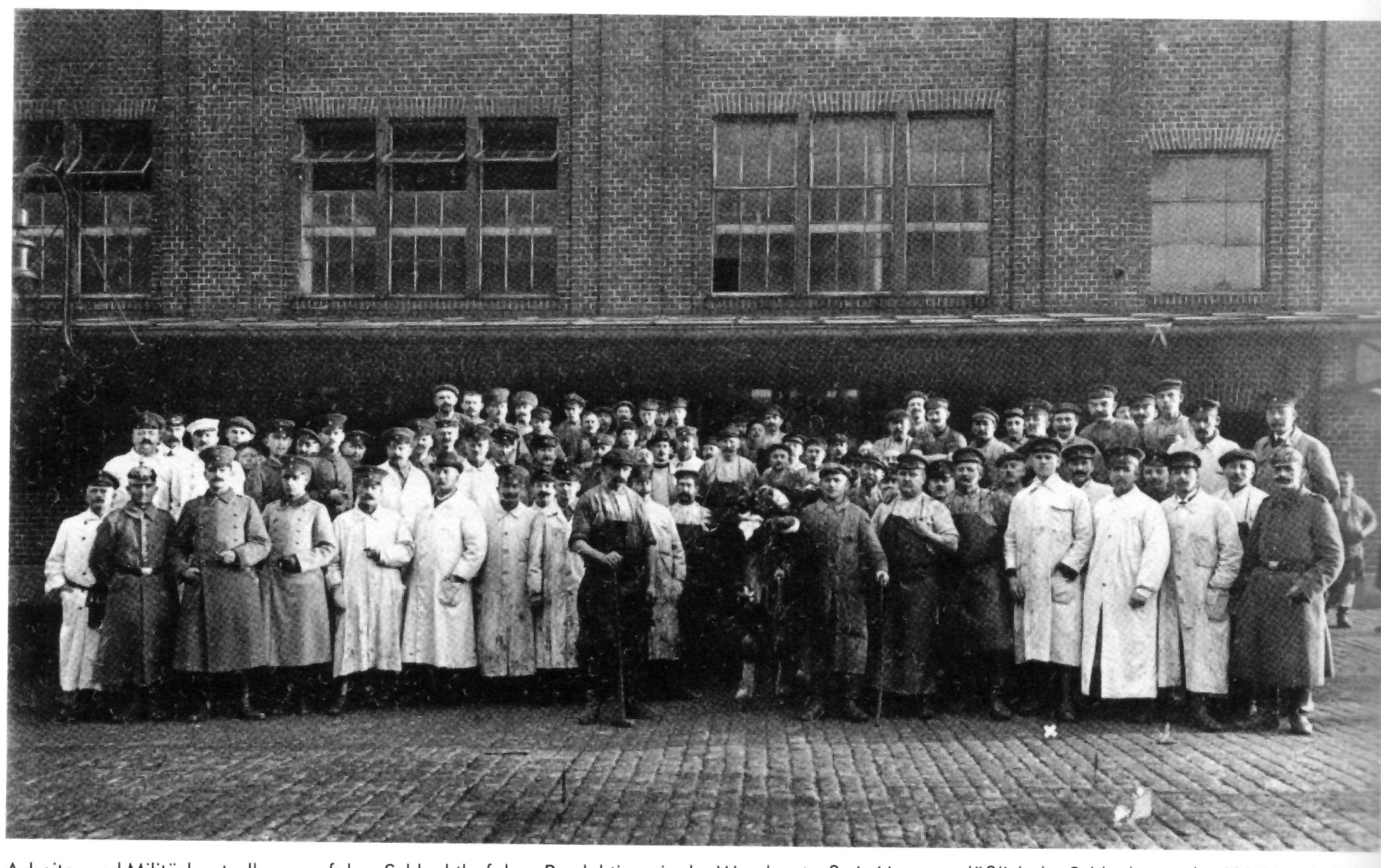 Gathering of employees and military control staff in the yard of the slaughterhouse of the cooperative “Produktion” in Hamburg-Hamm (Wendenstraße). 100.000 bullocks have been slaughtered there till the 15. December 1916. Max Brauer is marked with a white cross. Years later he will be the Mayor of Altona/Elbe respectively of Hamburg (Germany).